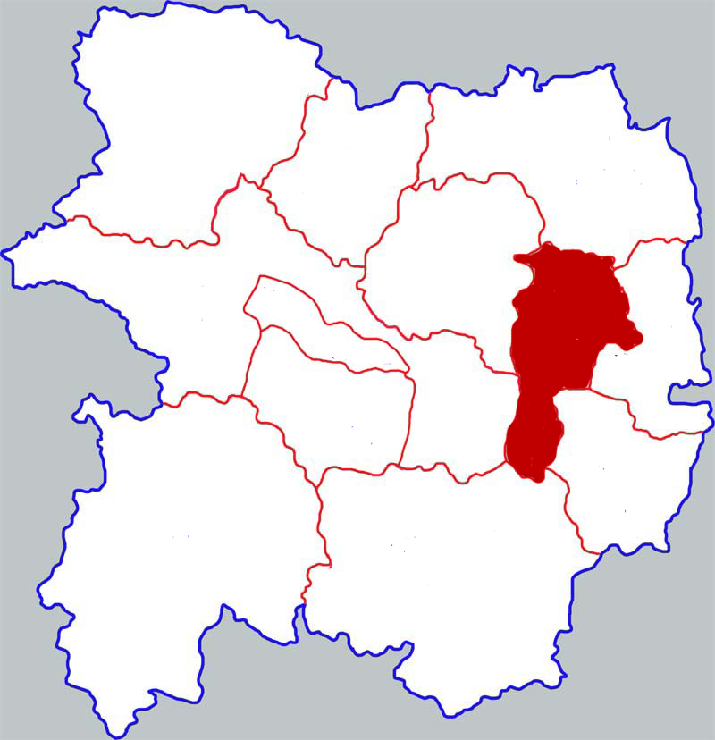 Location of Qishan county in Baoji city, China